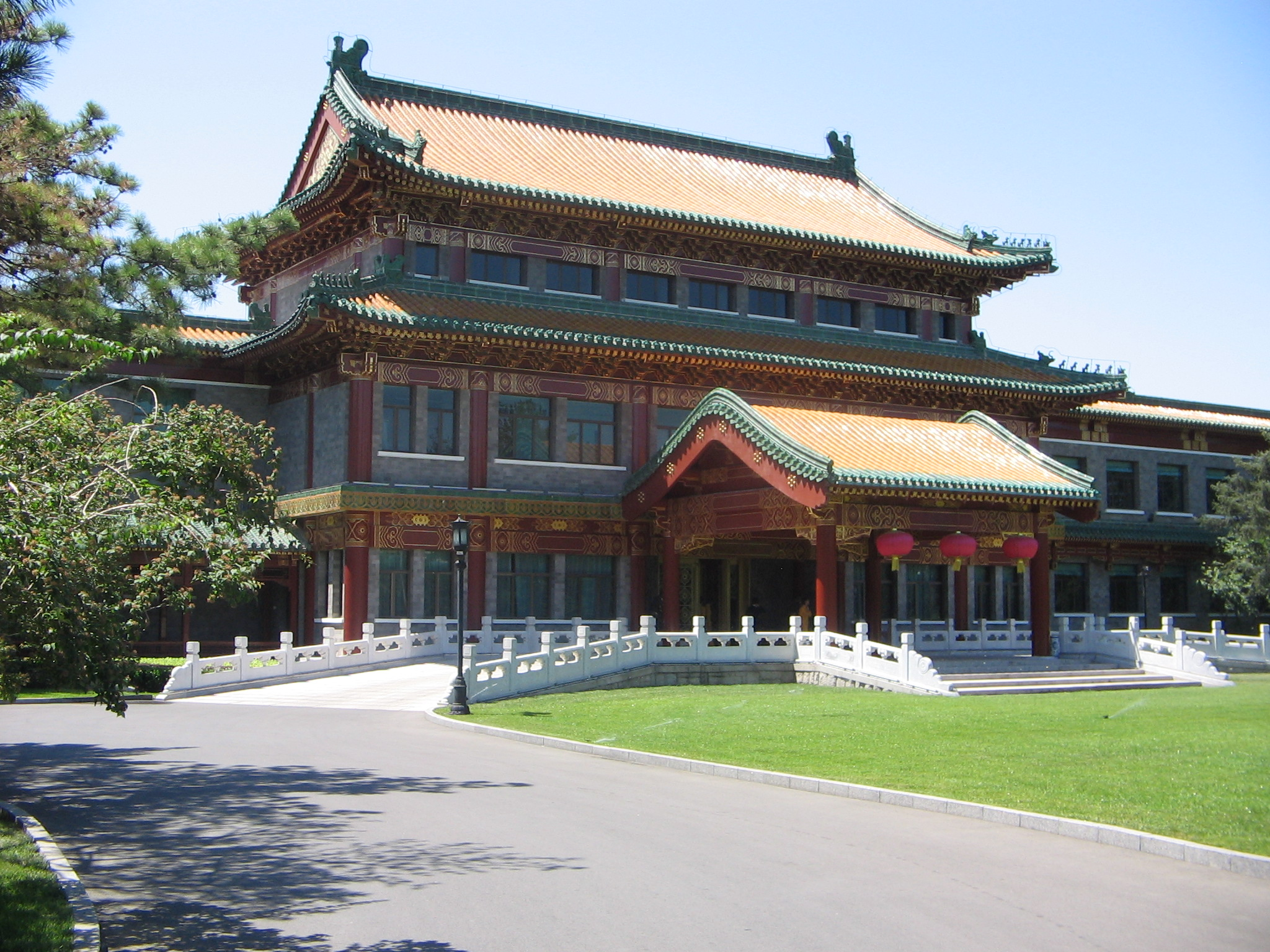 Villa 18 is one of the State Guest houses in Beijing, China